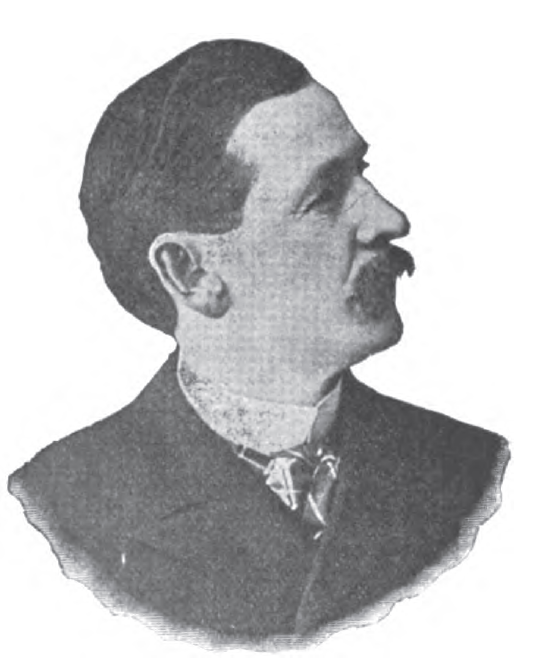 an Ohio politician named Stephen Morgan